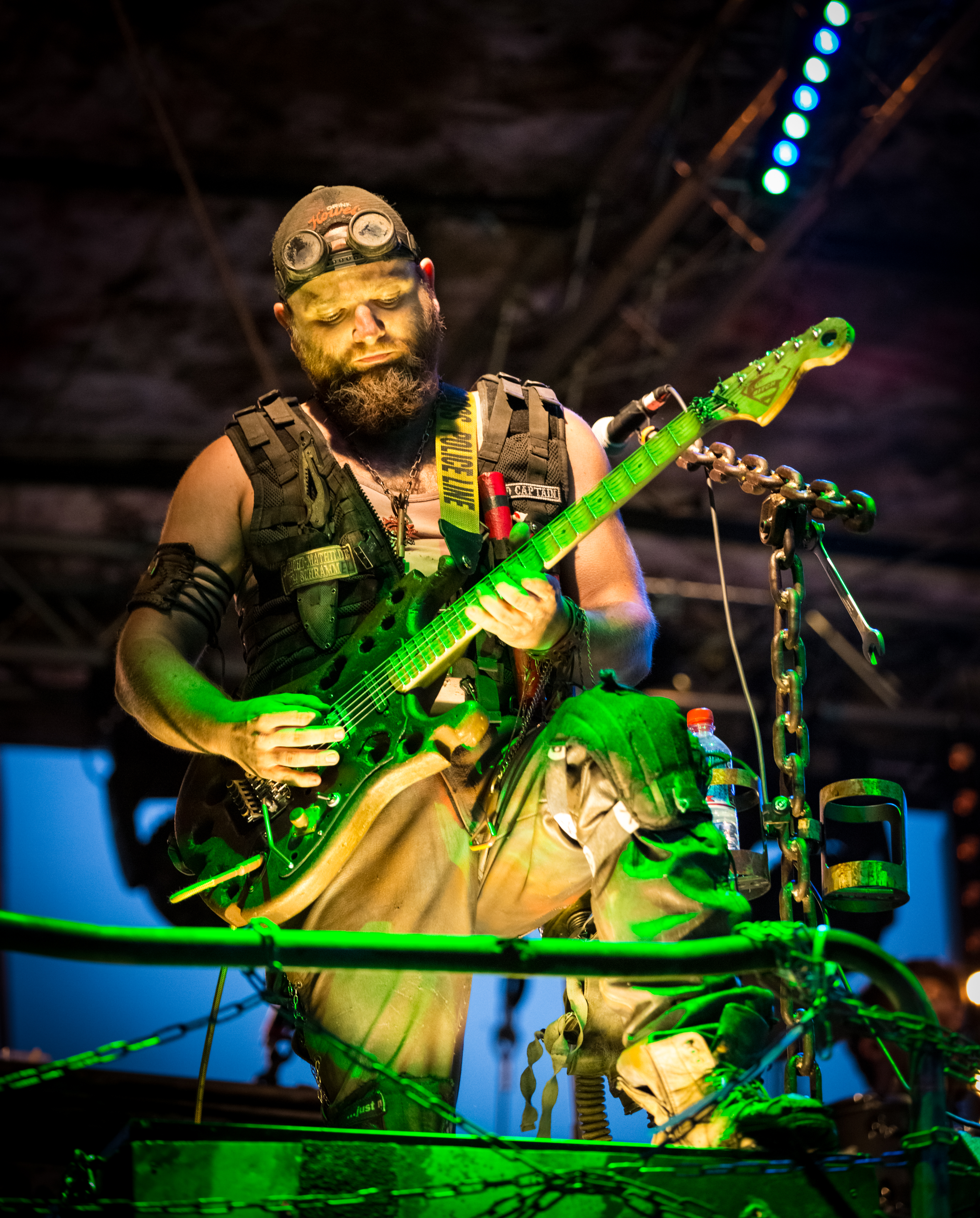 Monstagon - Wacken Open Air 2016